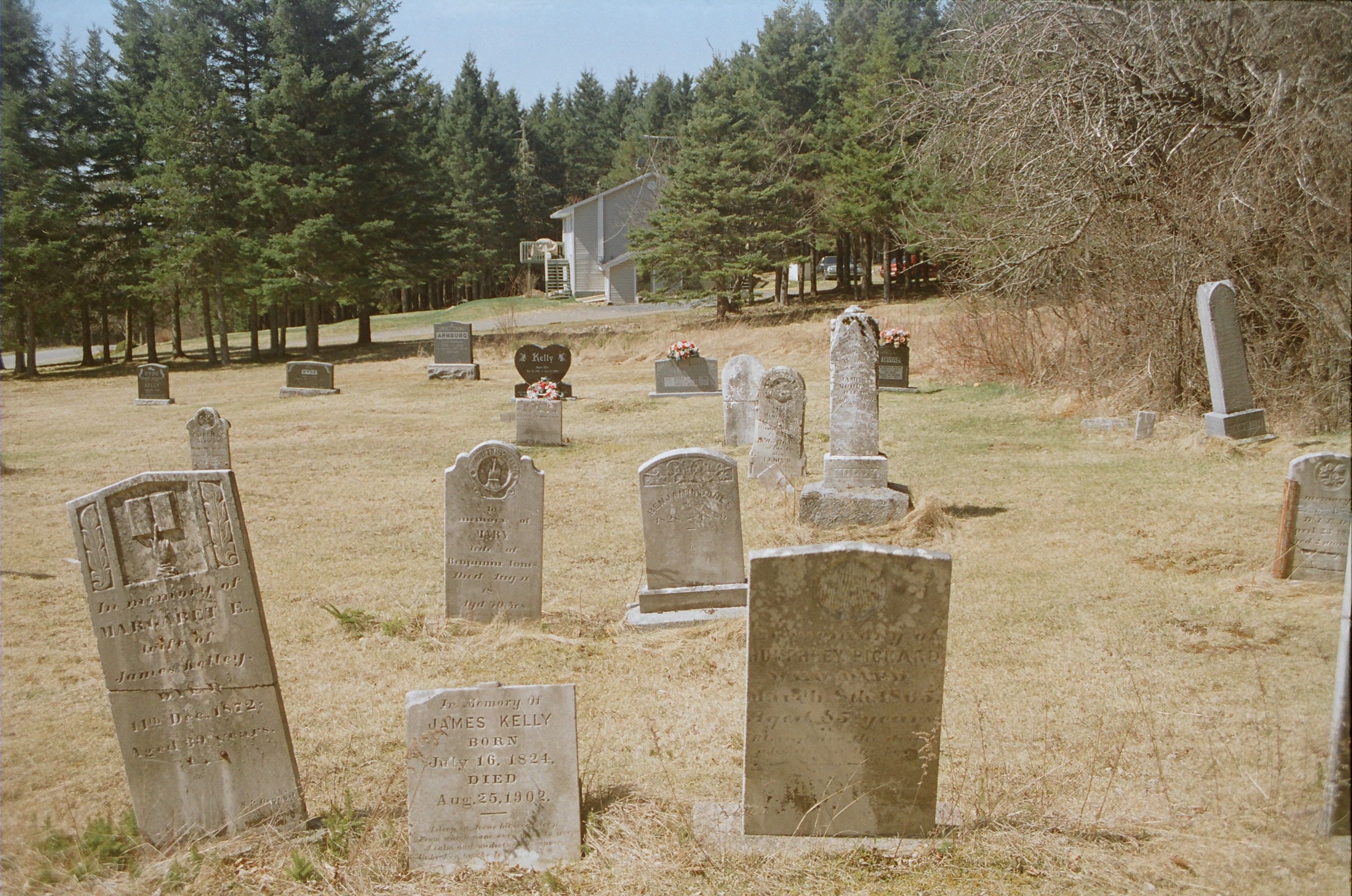 Historic New Brunswick Canada